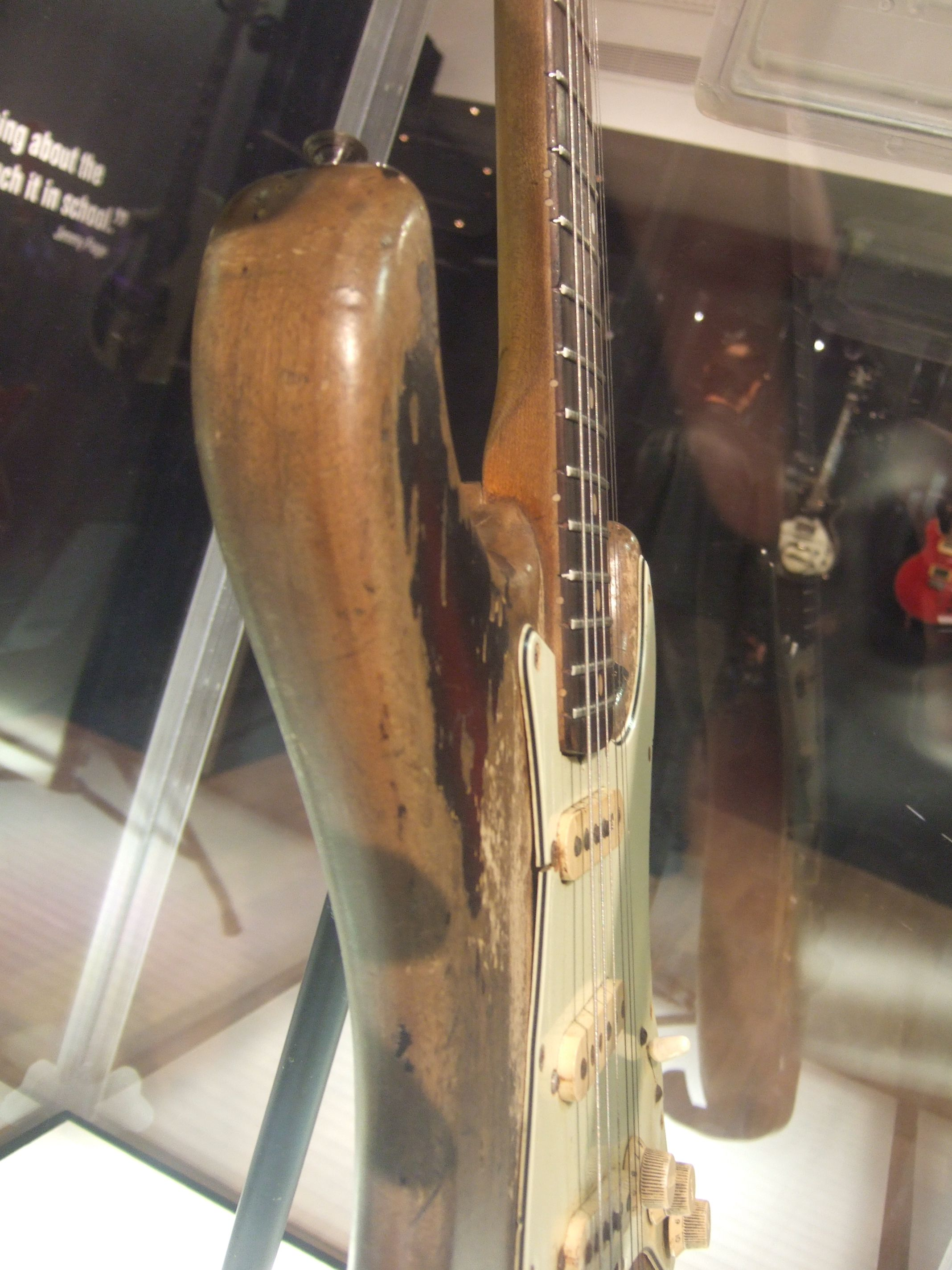 Rory Gallagher's 1961 Battered Strat side, at 'Born to Rock' at Harrods